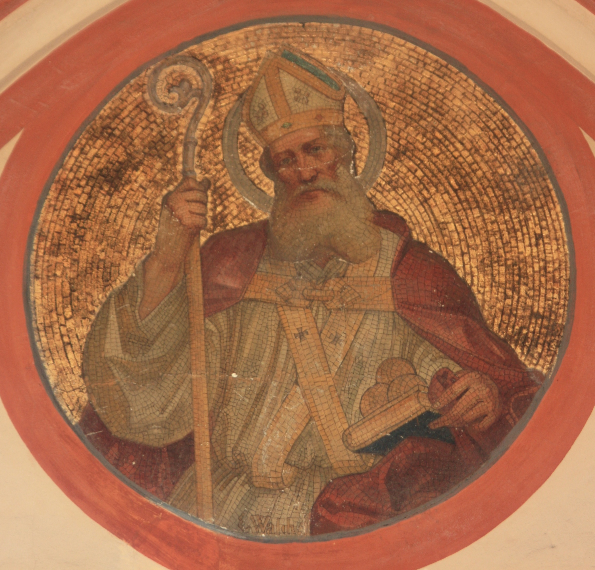 Portal of the parish church Saint Nikolaus - detail Street:Nikolaiplatz Community:Villach